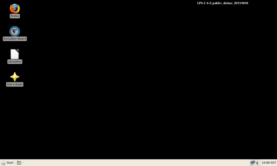 Desktop screenshot of Lightweight Portable Security v1.6.0 Public Deluxe. Includes desktop icons (Firefox, Encryption Wizard, LibreOffice, User Guide) and panel/toolbar.